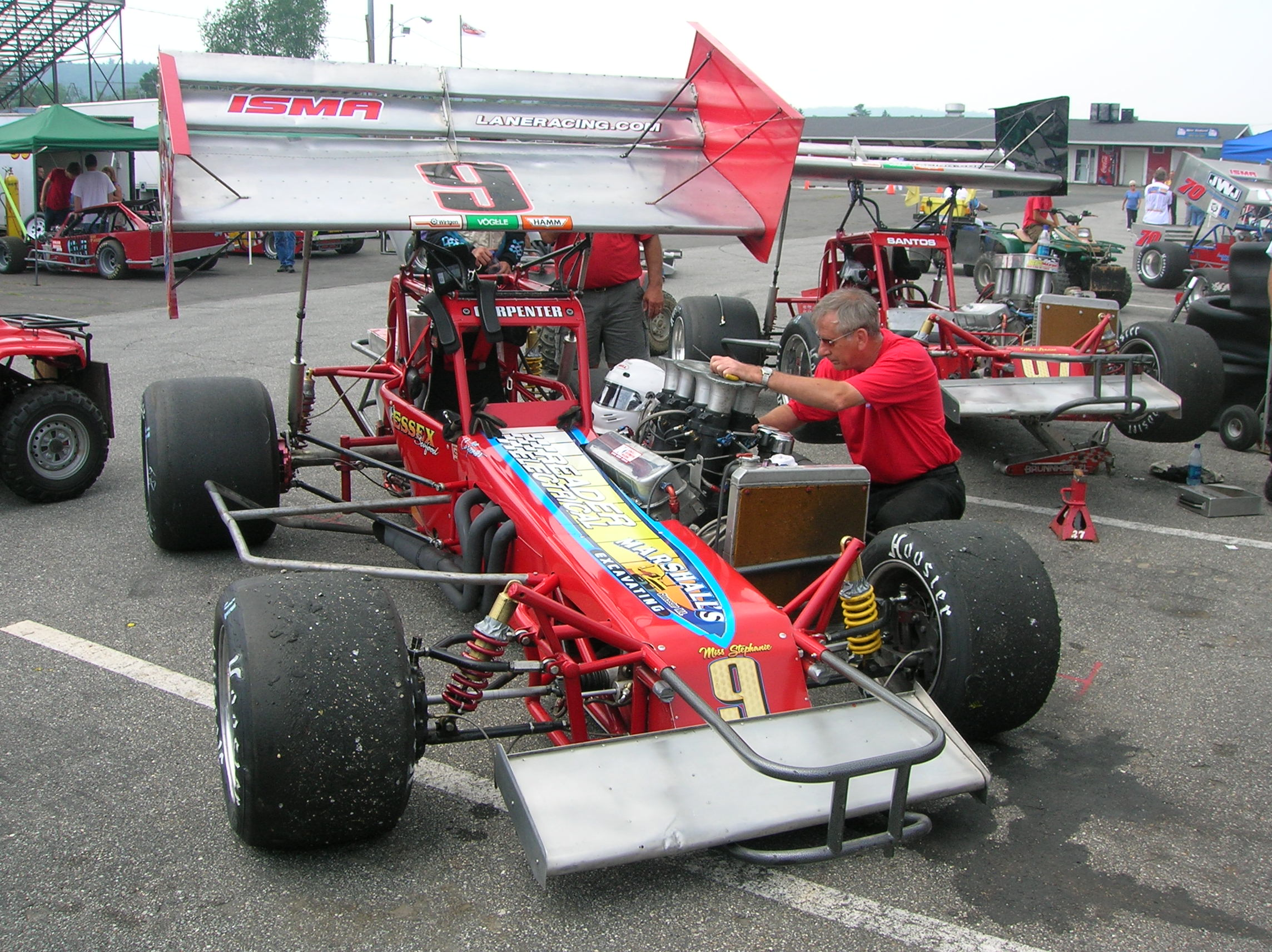 The ISMA supermodified #9 machine being worked on in the paddock area.